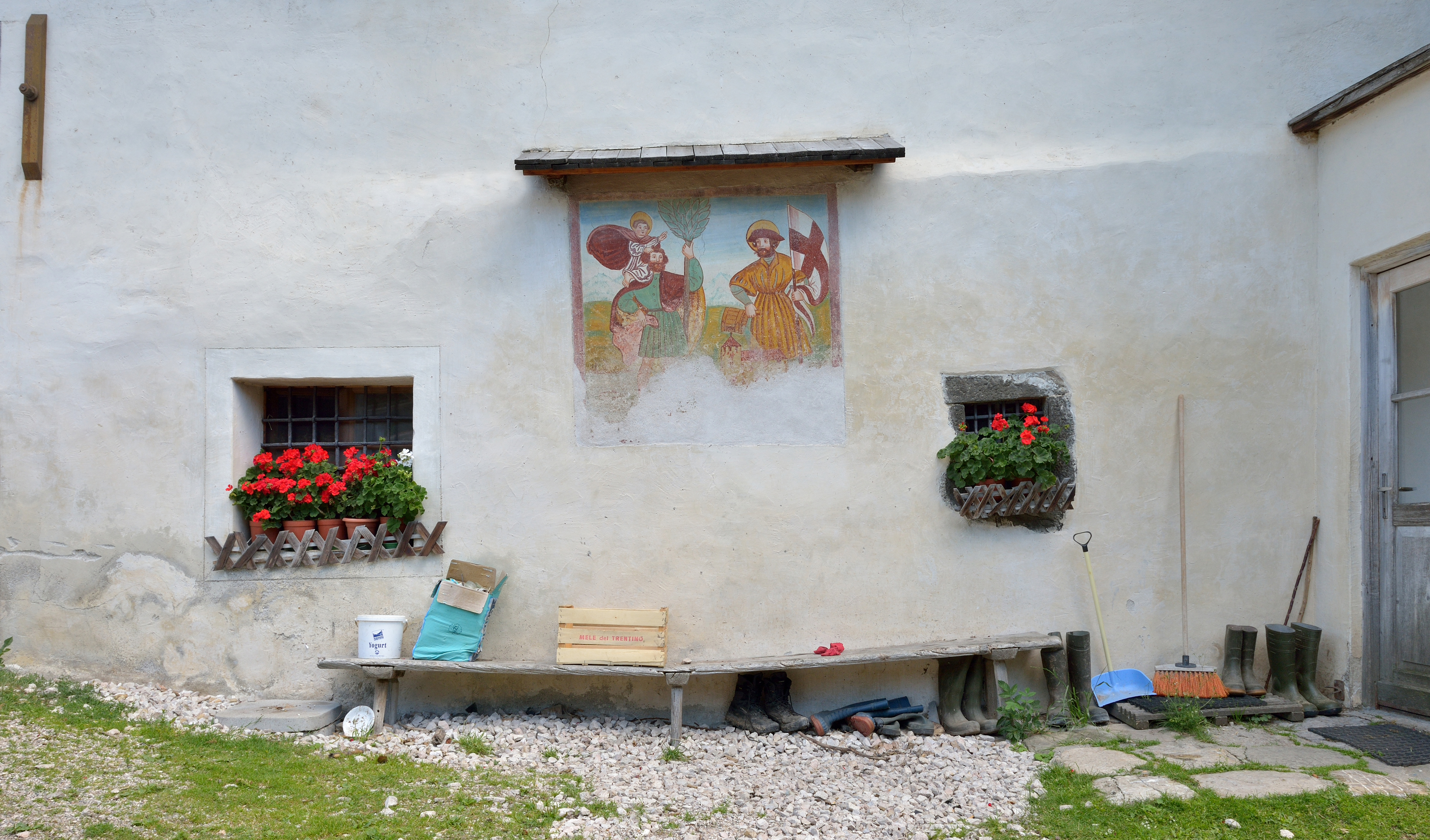 Manor "Colz" in San Linert